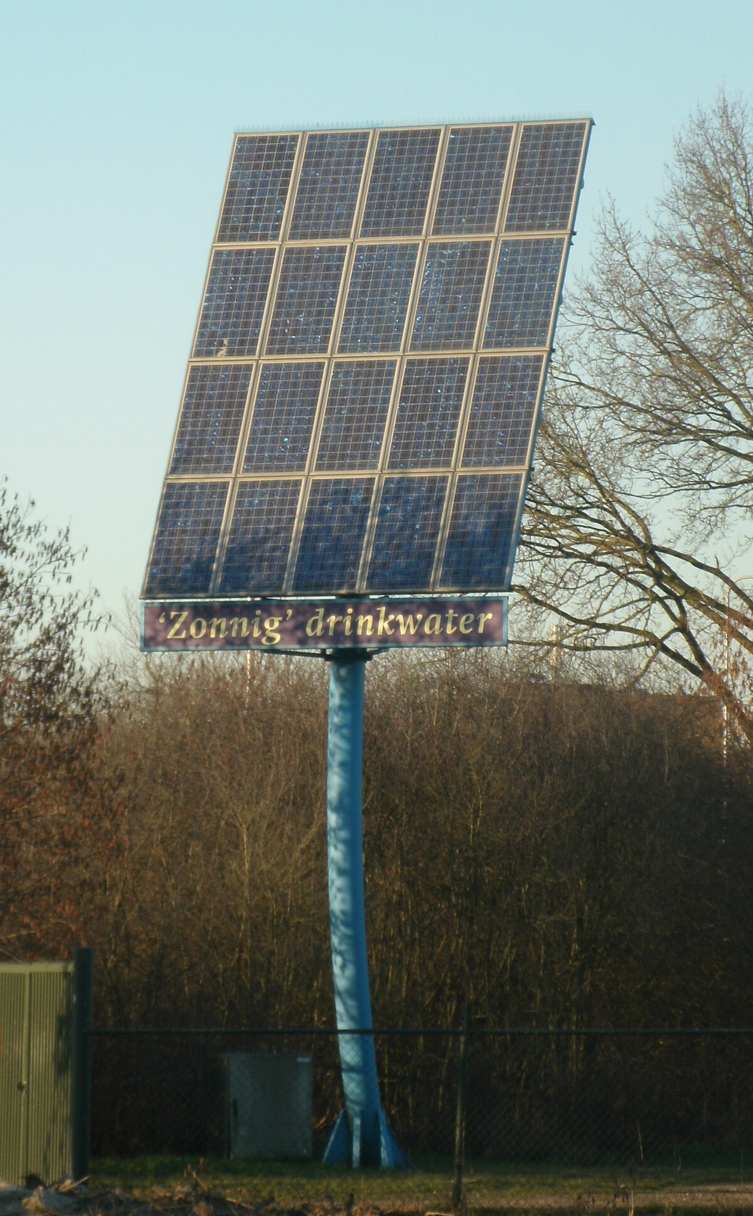 Nuon Solar cell panel near Ede, the Netherlands